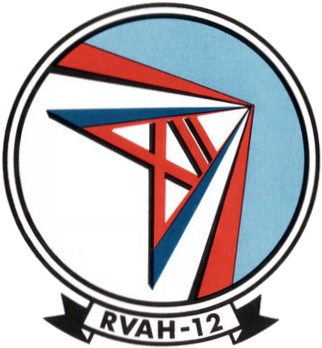 Insignia of the U.S. Navy Reconnaissance Heavy Attack Squadron 12 (RVAH-12).